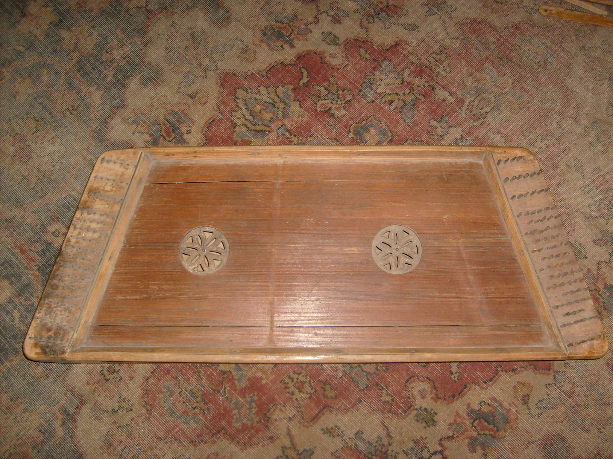 Dulcimer from Rzeszow region (Poland)